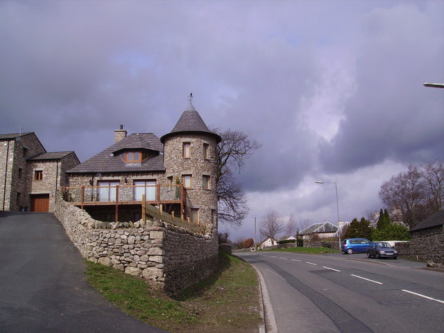 Leaving Kendal. There is some great stonework in Kendal